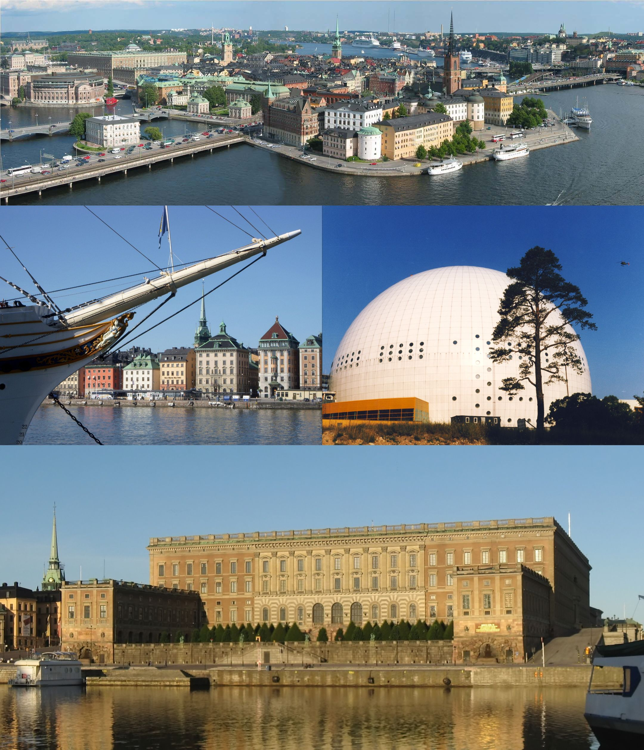 Top: Image of the Old Town & "The Knights' Islet" aswell as the govornment building. Left: The Chapman Ship overlooking the Old Town. Right: The Ericsson Globe "Globen". Bottom: The Royal Official Castle and the workplace of the Monarch, King Carl Gustaf XVI Bernadotte.